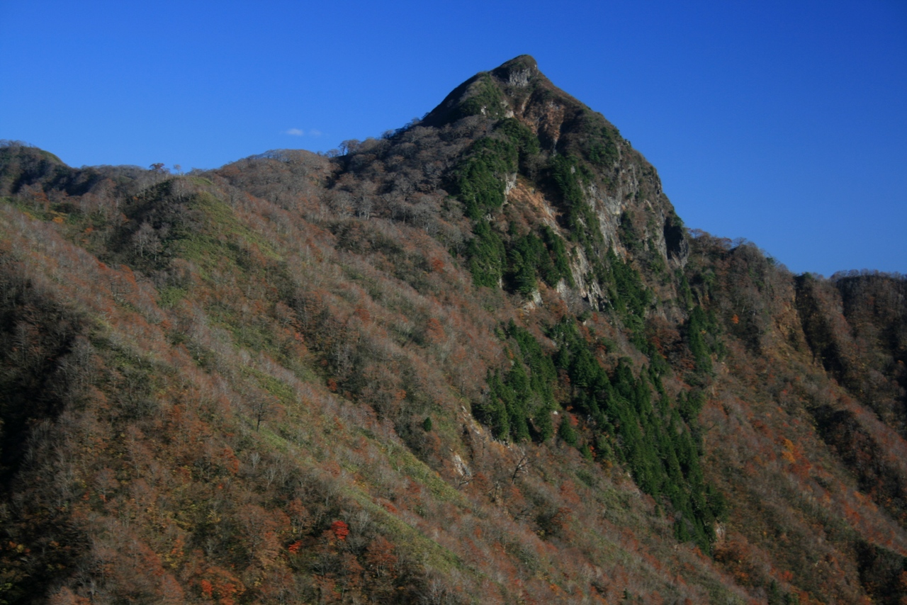 Mount Kanmuri from the road